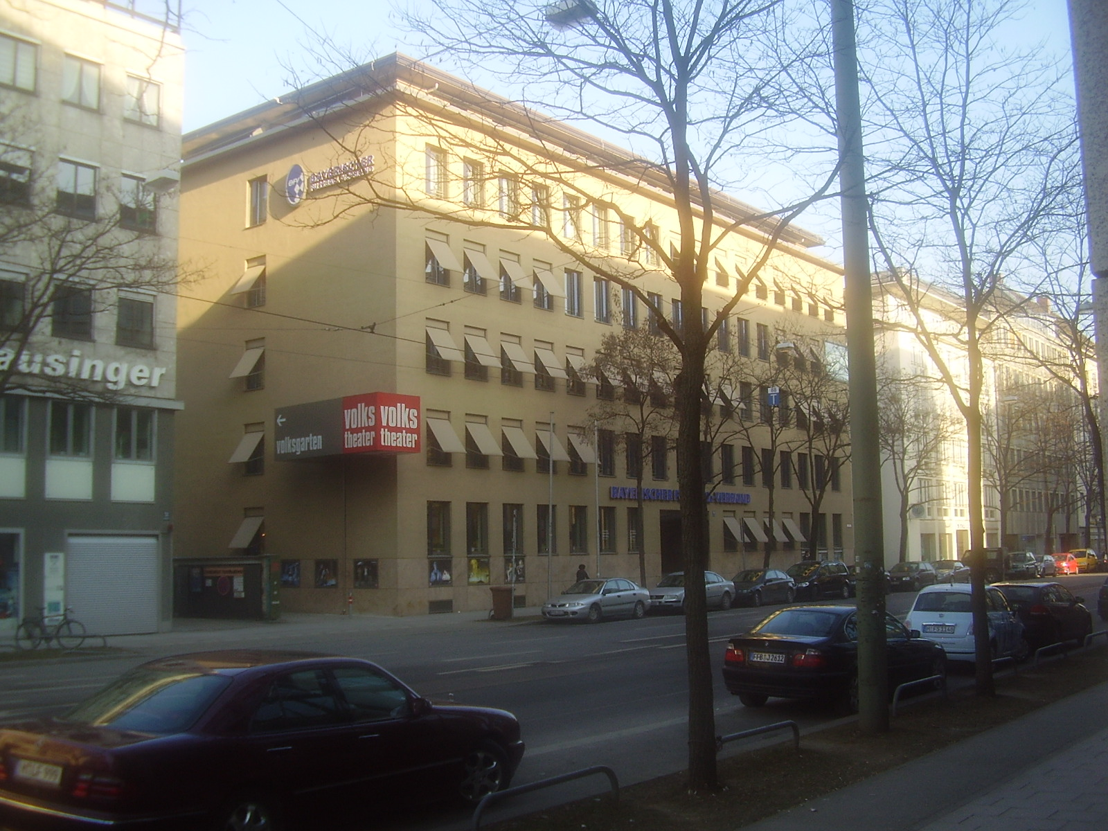 central of the Bavarian Football Association